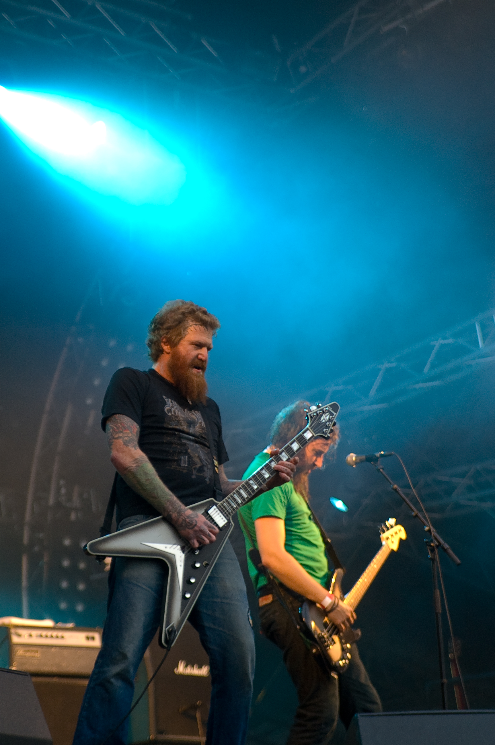 Brent Hinds & Troy Sanders of Mastodon at Ruisrock 2007